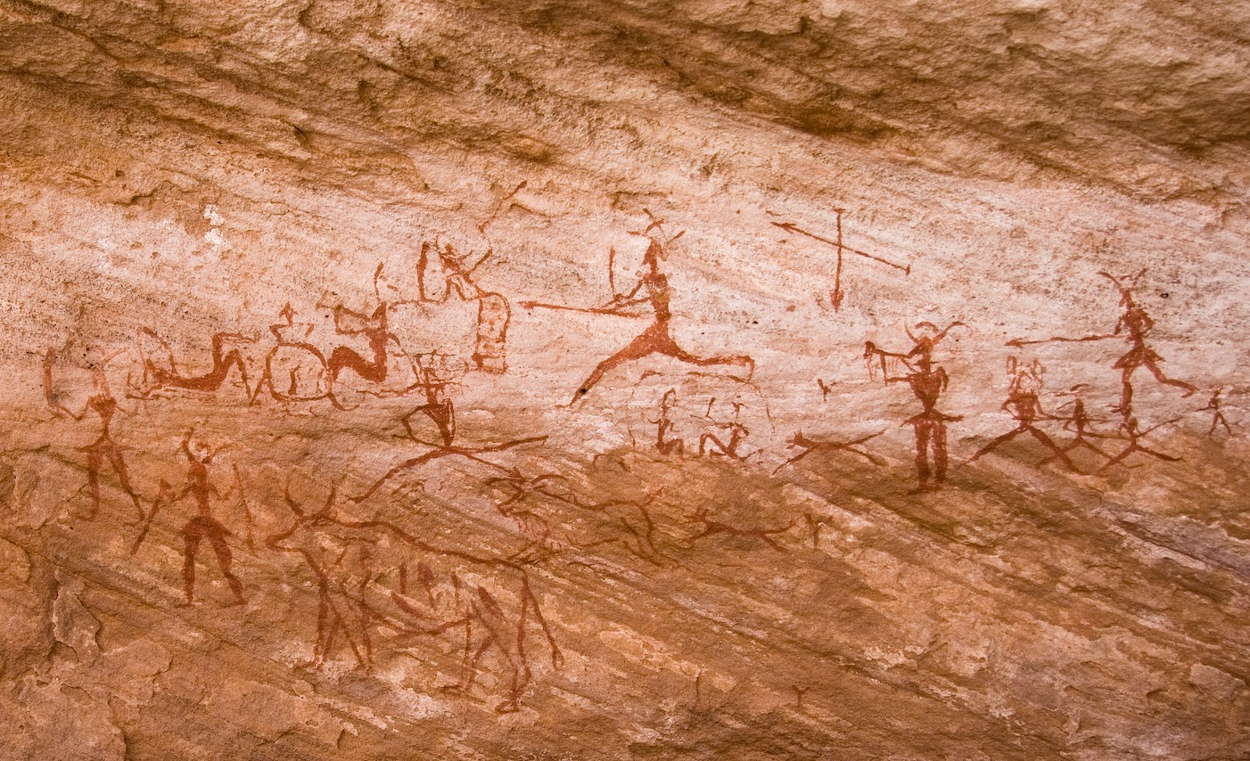 Rock paintings in Tadrart Acacus region of Libya dated from 12,000 BC to 100 AD. There are paintings and carvings of animals such as giraffes and elephants reflecting the dramatic climatic changes in the area.